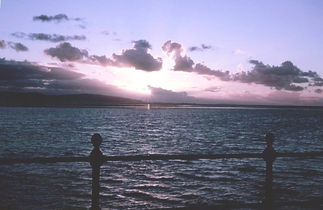 Sunset over the Marine Lake, West Kirby, Wirral, England.